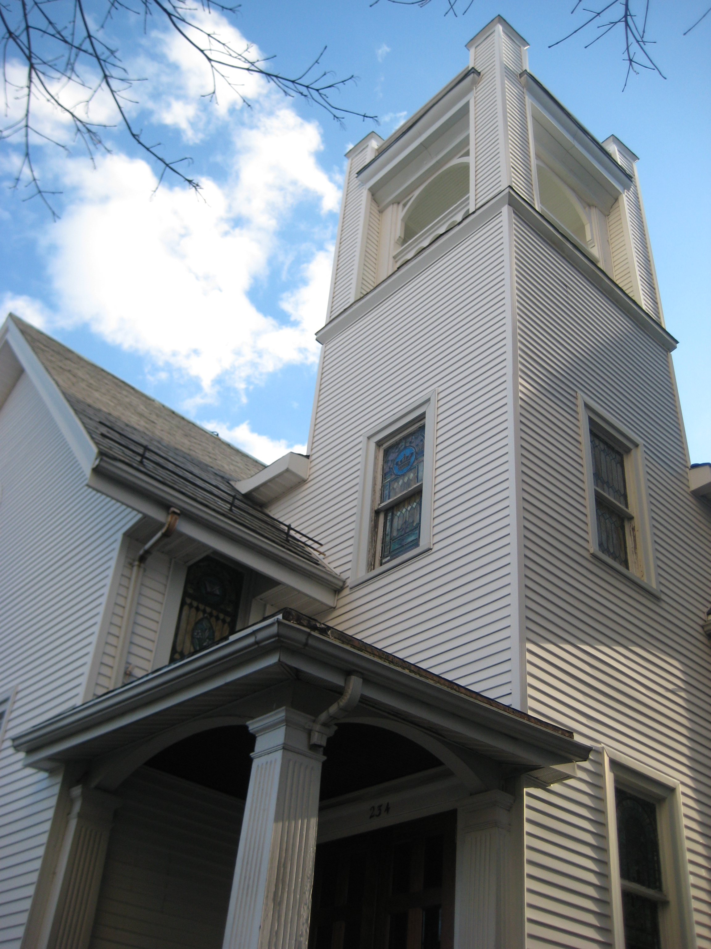 First Church of the Nazarene at 234 Franklin Street, near Central Square in Cambridge. Photo by John Stephen Dwyer